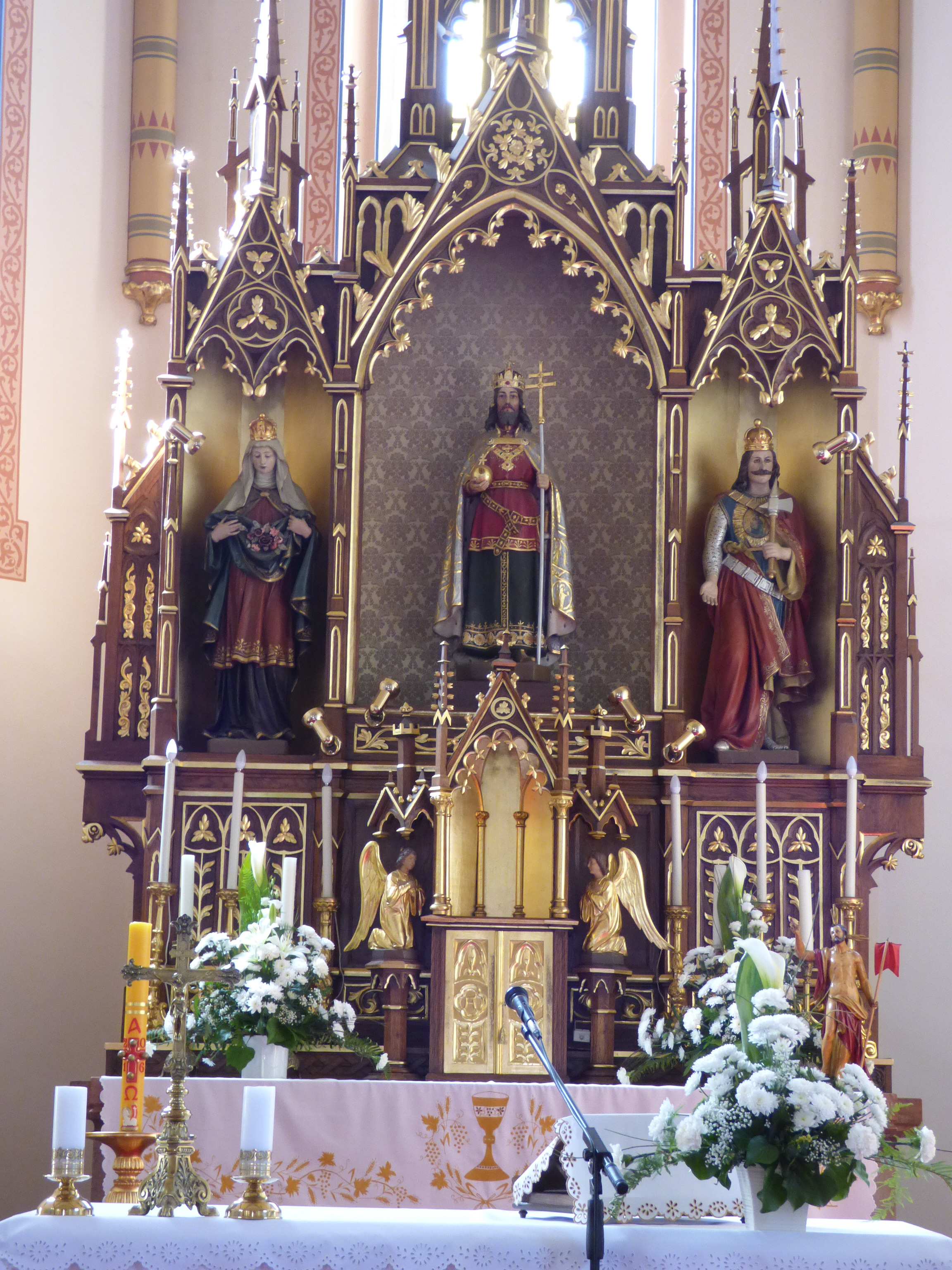 Dunaharaszti, a templom főoltárja